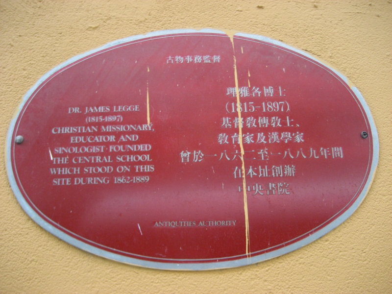 Commemorative Plaque for Dr. James Legge